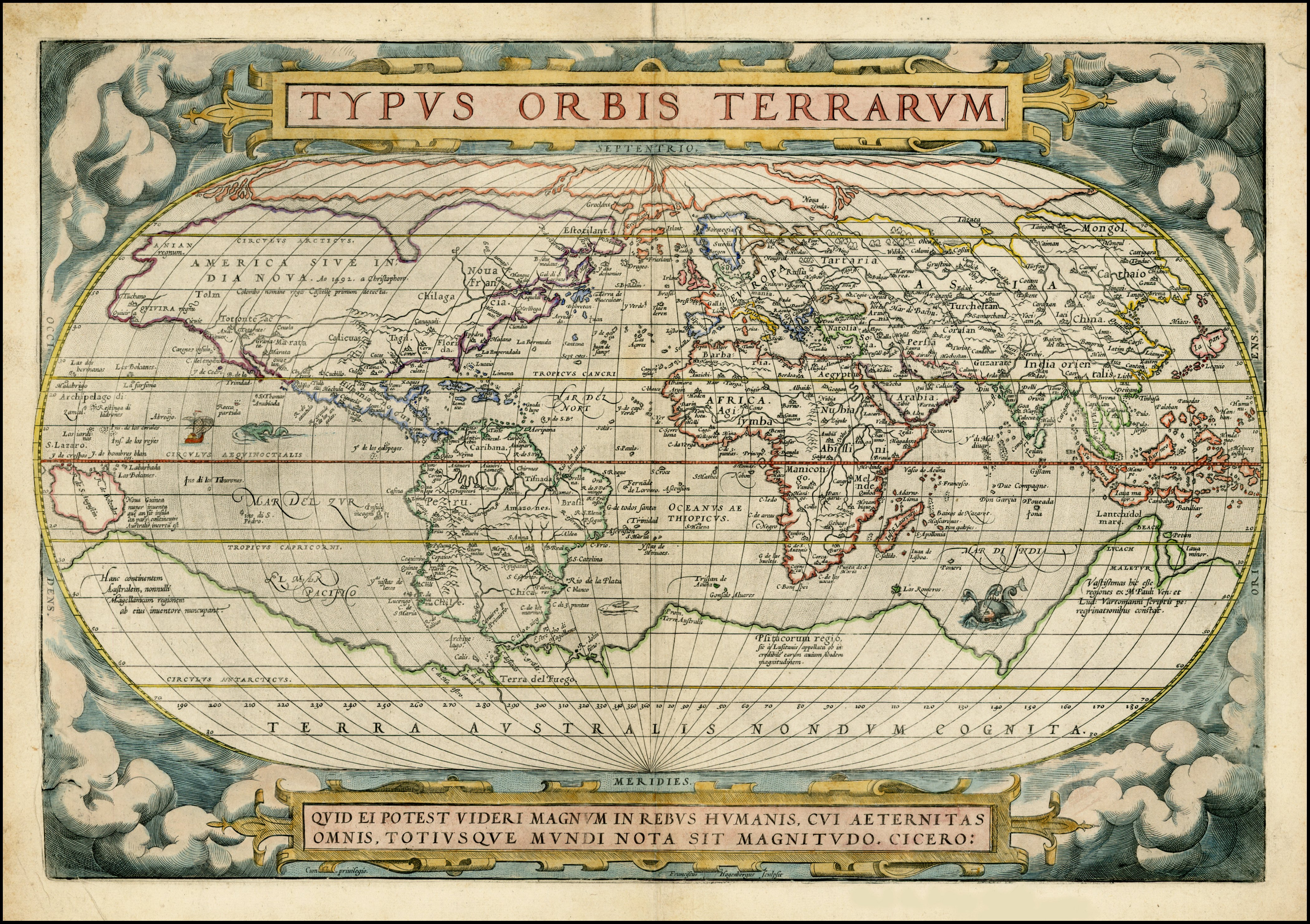 Abraham Ortelius Orbis Terrarum PublicationAntwerp 1572